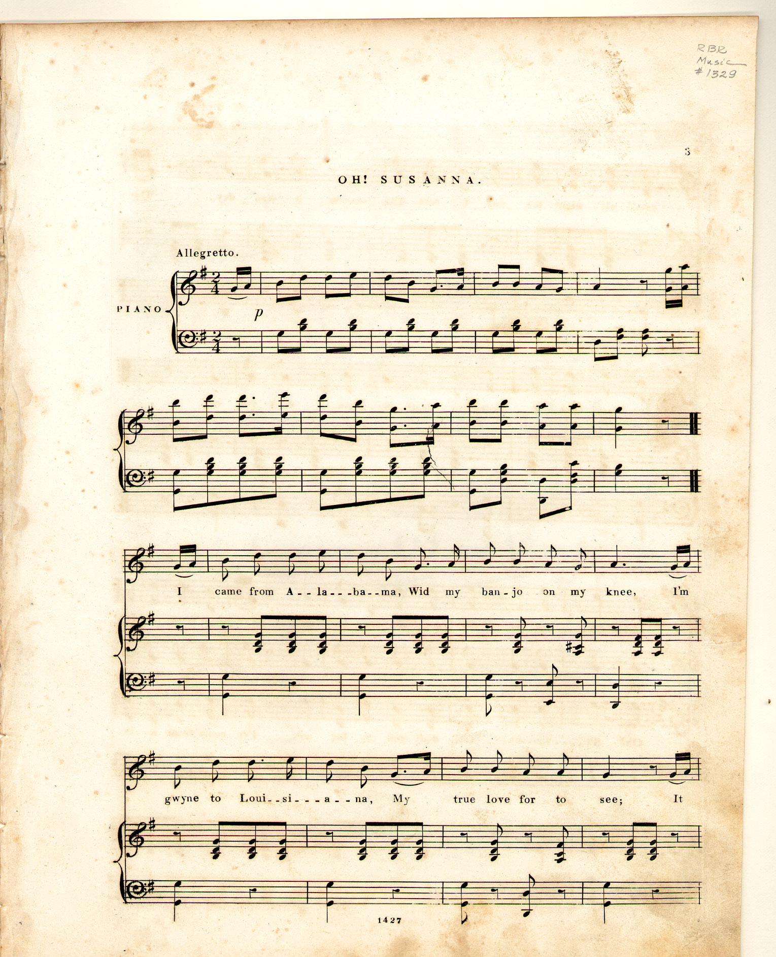 Sheet music from "Oh! Susanna"